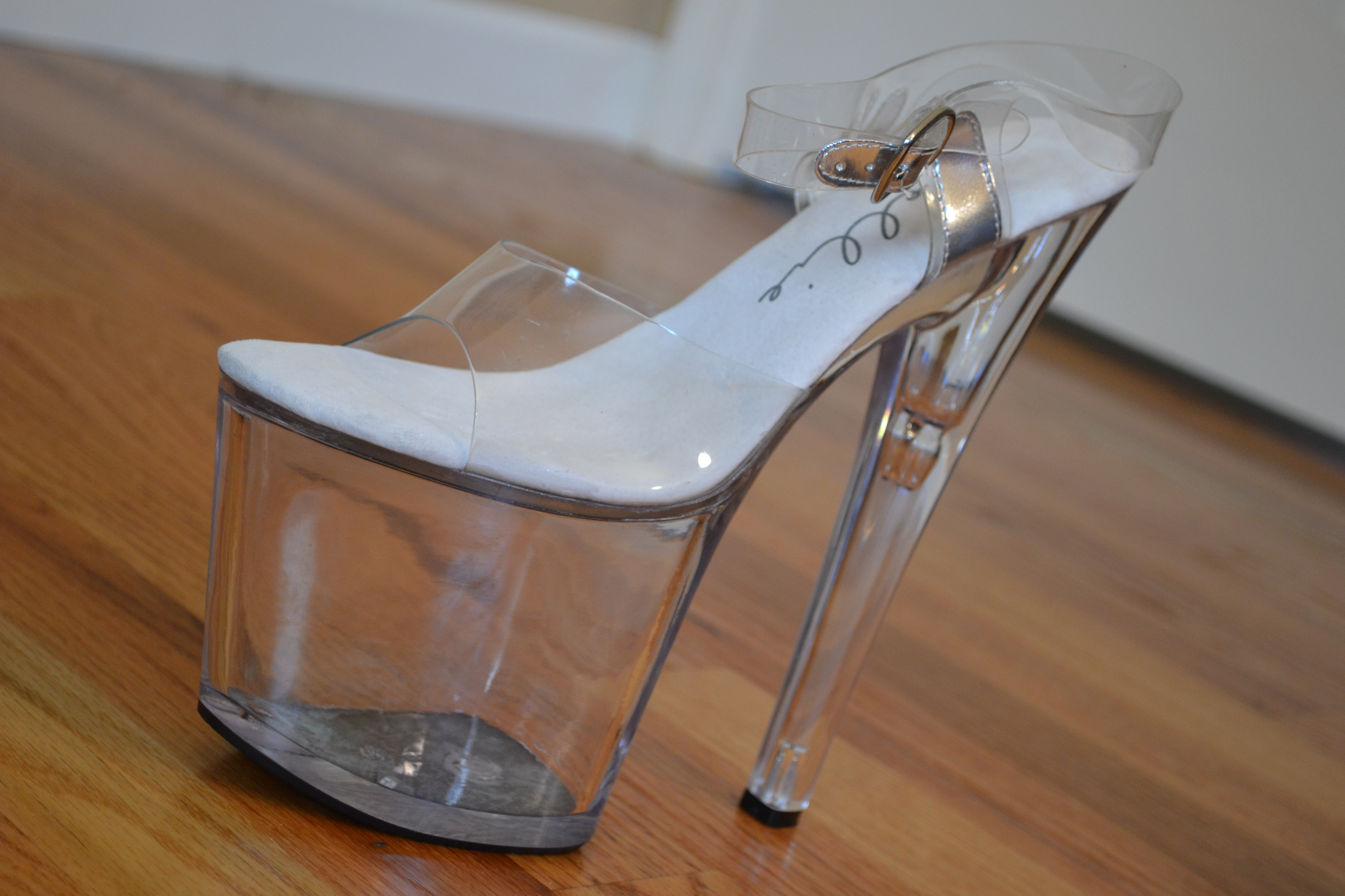 Ellie-821 8" cleer heel